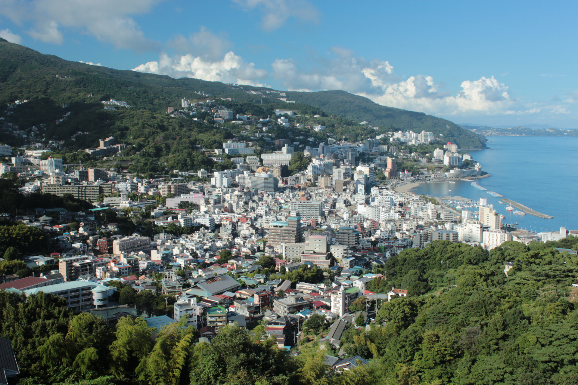 Downtown of Atami as seen from the southwest in Shizuoka Prefecture, Japan.